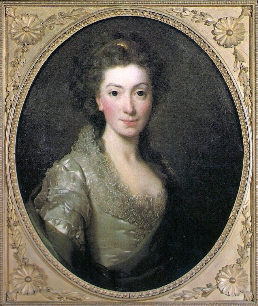 Polish Duchess Izabela Czartoryska (1746-1835)